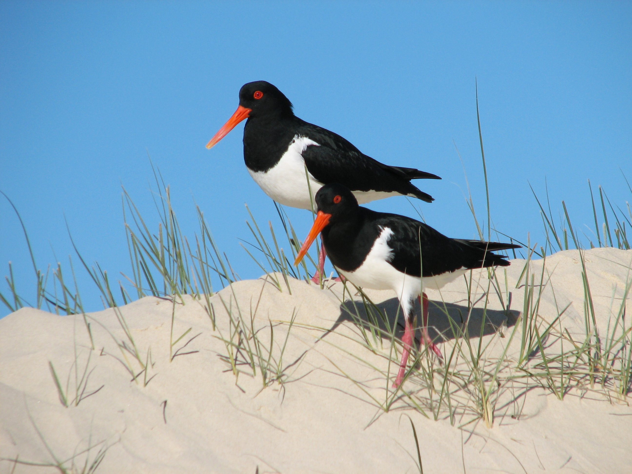 Two Haematopus longirostris standing on a sand dune. (Australia, Queensland, Couran Cove Island Resort, Broadwater Beach).